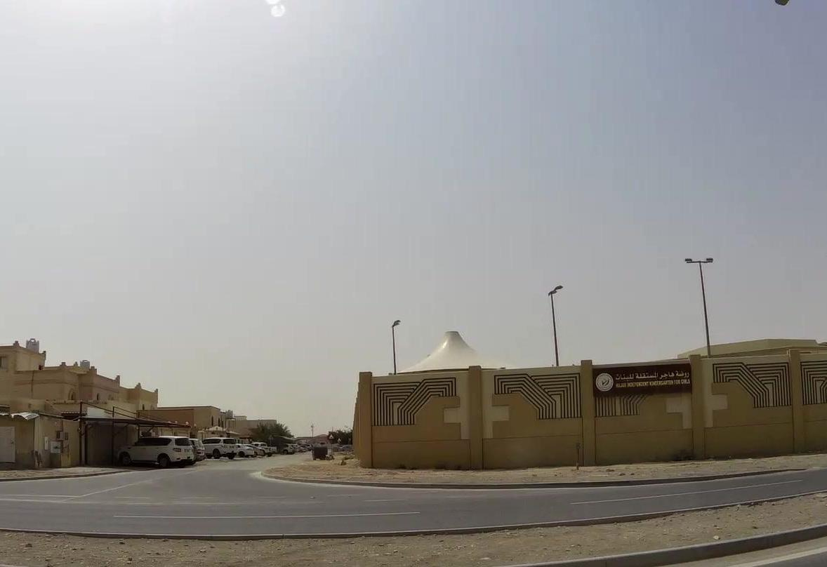 Al Hajar Independent Kindergarten for Girls on New Sailiya Street in Al Mearad district, Al Rayyan Municipality, Qatar.